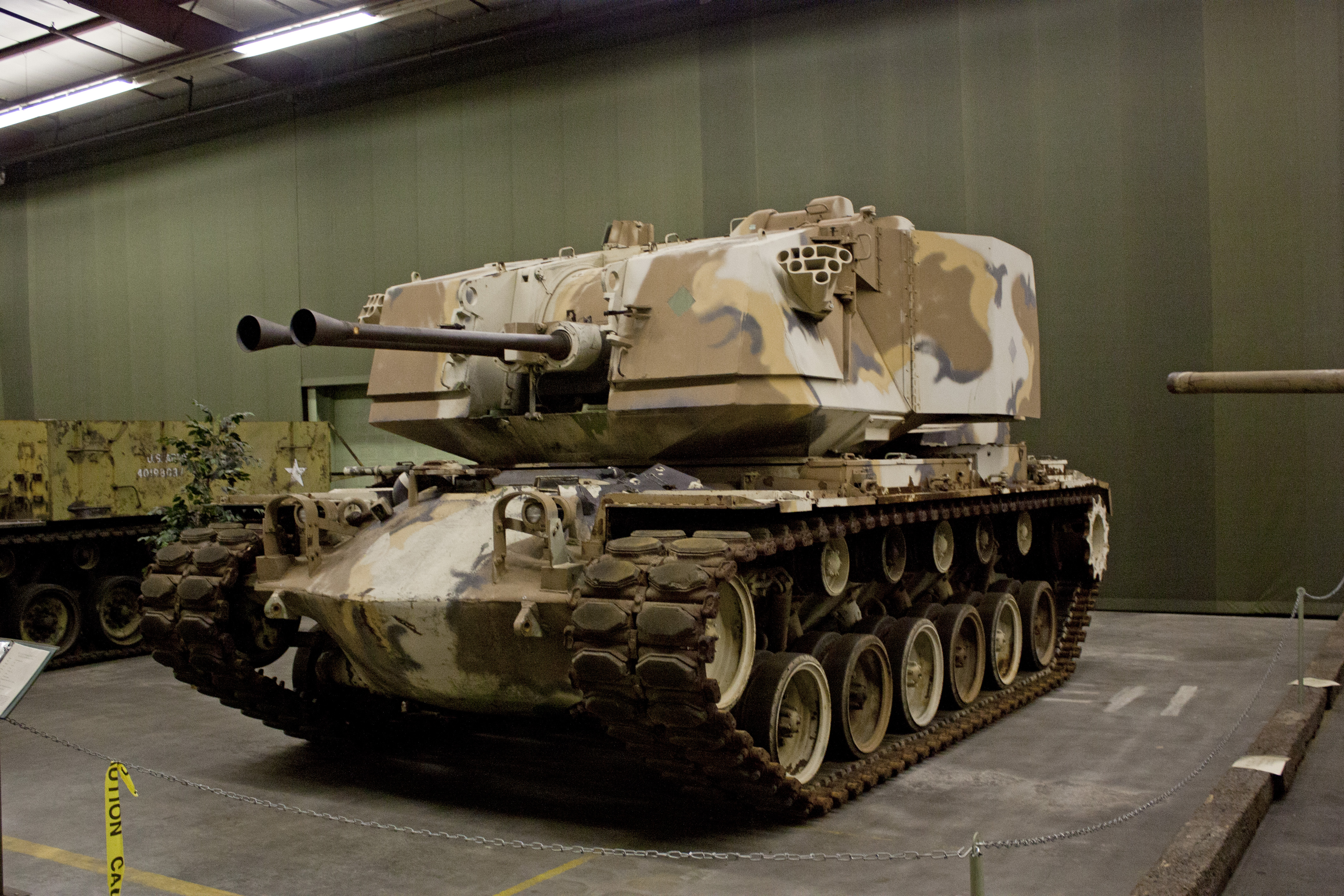 M247 Sergeant York DIVAD